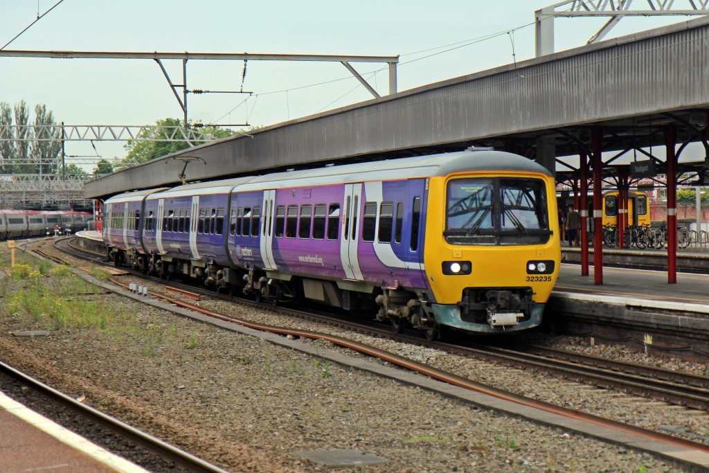 Northern Rail Class 323, 323235, Stockport railway station